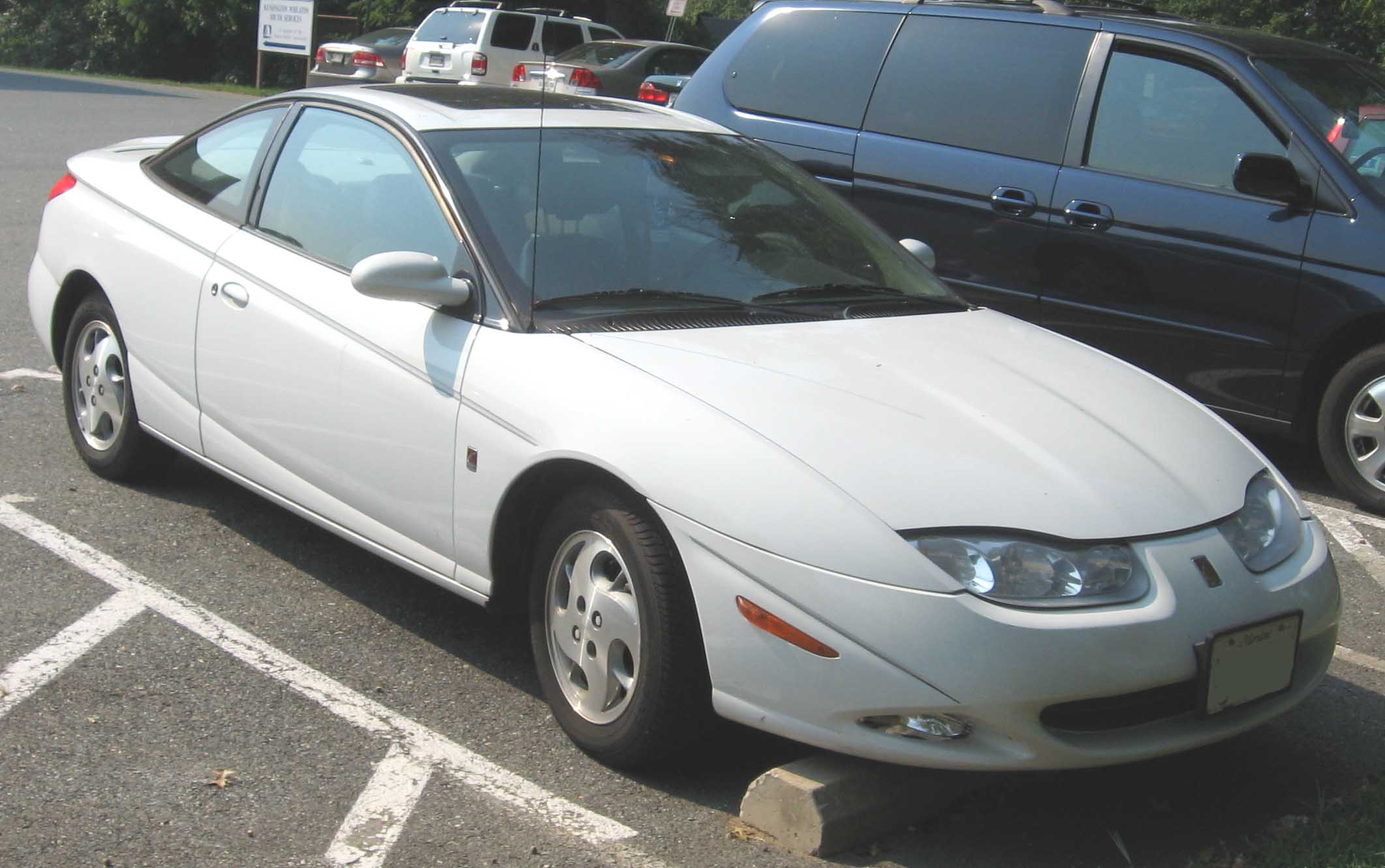 2001-2002 Saturn SC photographed in Silver Spring, Maryland, USA.